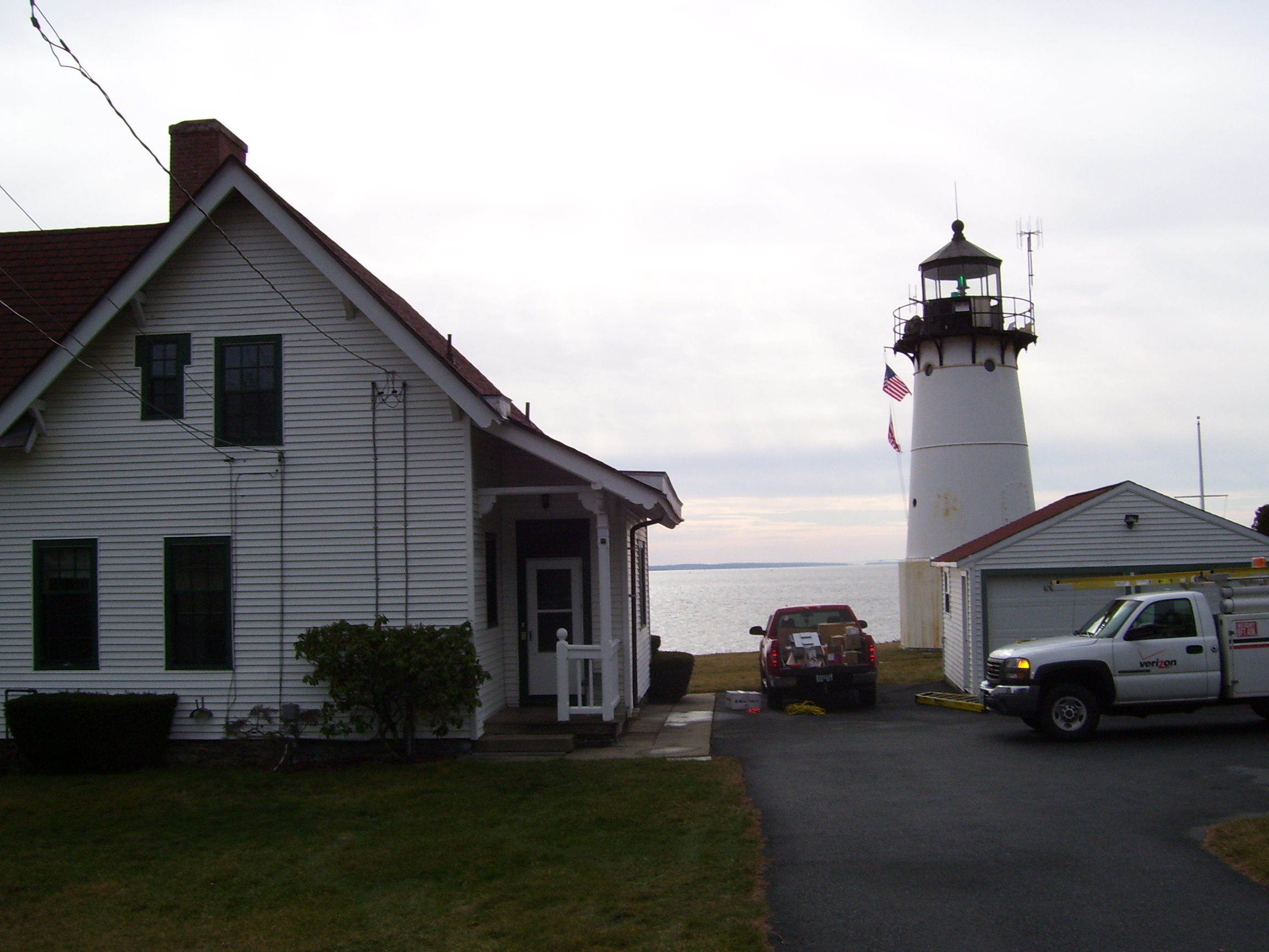 This is my 2008 photo of the Warwick Neck Lighthouse in Warwick, Rhode Island.